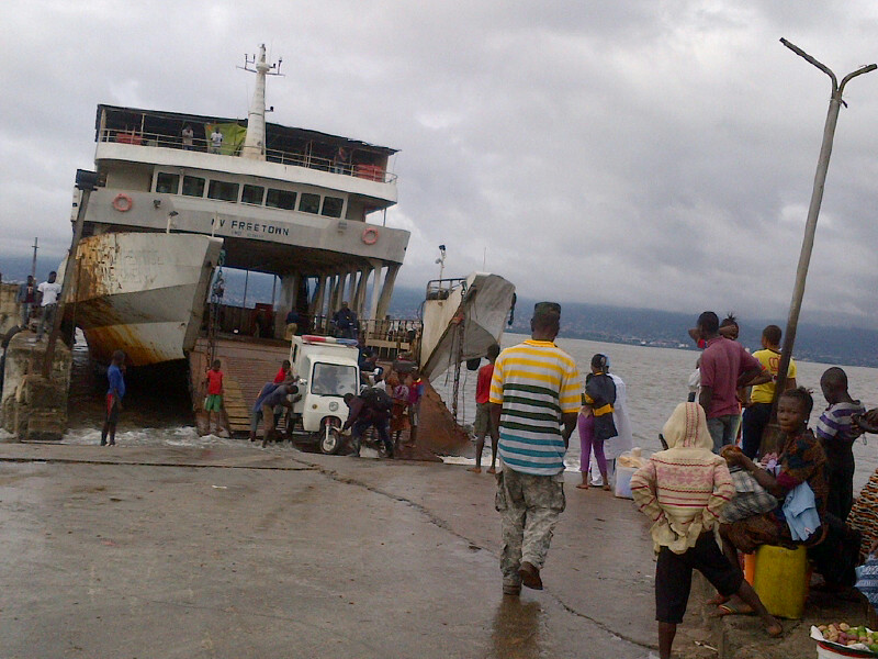 Tricycle ambulance used to transport suspected Ebola patients identified during airport screening in Sierra Leone. Photographer: Katrin Kohl For more information on Ebola and what CDC is doing, please visit